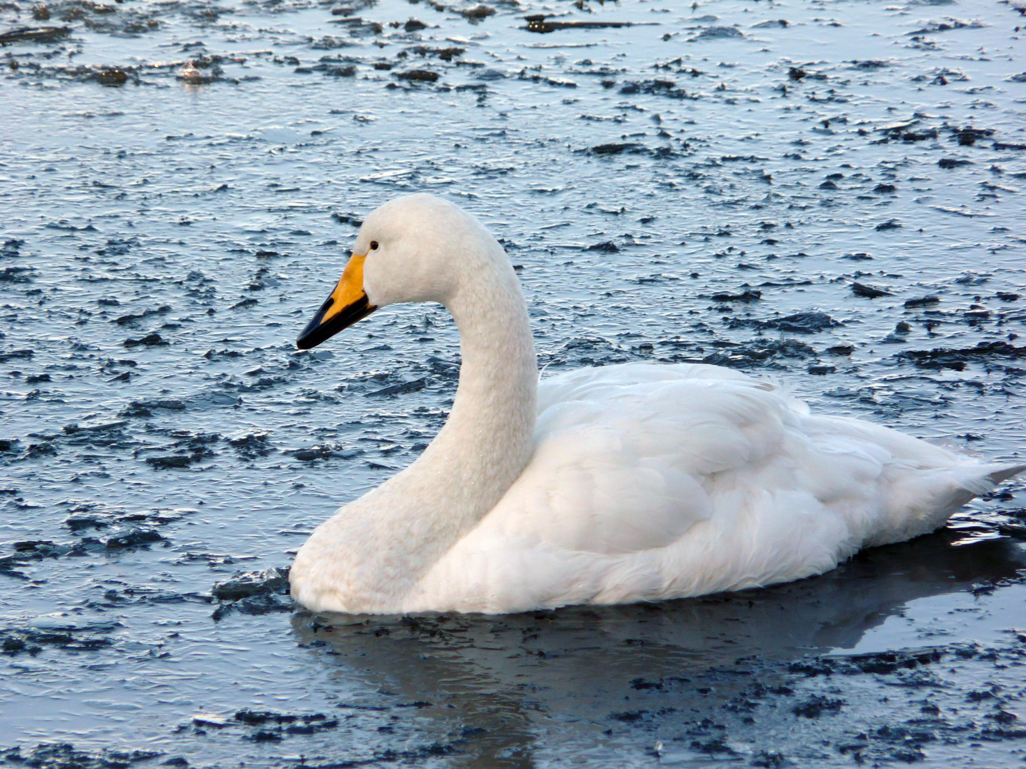 A Whooper Swan swimming through ice at WWT Welney, Ouse Washes, The Fens, England.